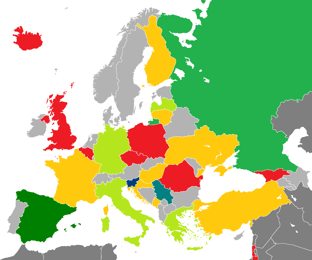 A map showing the finishing rounds of each participating team at EuroBasket 2017. Winner Second place Third place Fourth place Fifth to Eighth place Nineth to sixteenth place Group phase